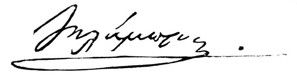 The signature of Spyridon Lampros, Greek historian and primeminister